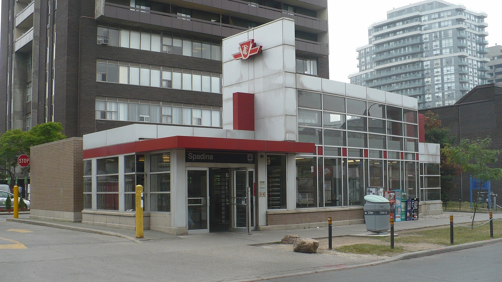 Walmer entrance to Spadina subway station in Toronto